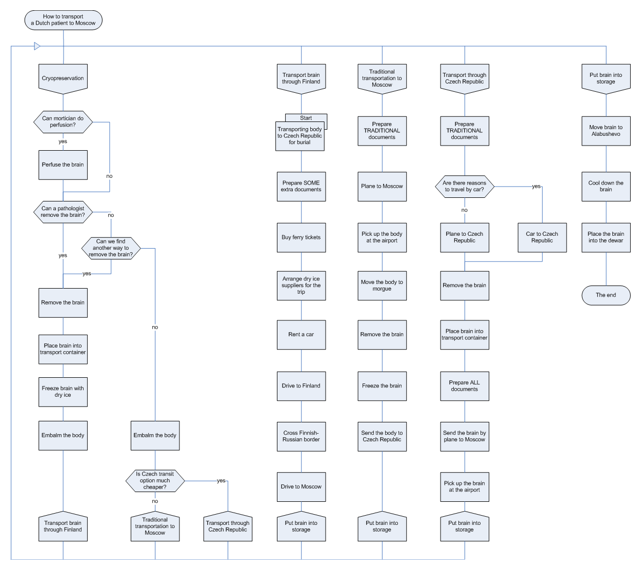 A DRAKON diagram describing a transportation of a cryonics patient. Author: KrioRus ( 2006. Released as public domain by the author.